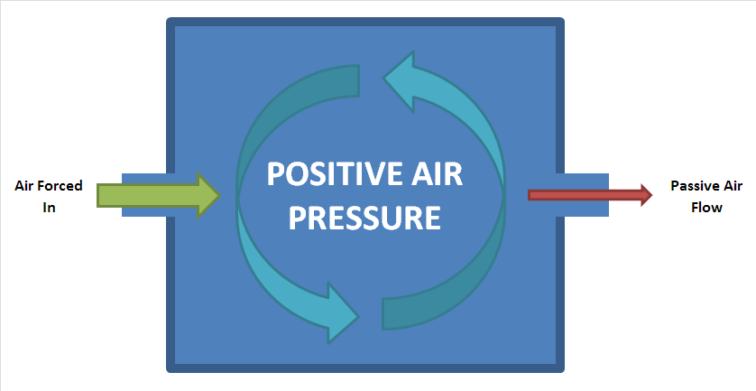 Fans or filters blow air into the system, creating a positive pressure and excess air escapes passively through designed outlets. This image is misleading in that the arrows suggest that a larger volume of air is entering the chamber than leaving it: it would be better to have a pressure gauge icon at the inlet and outlet.